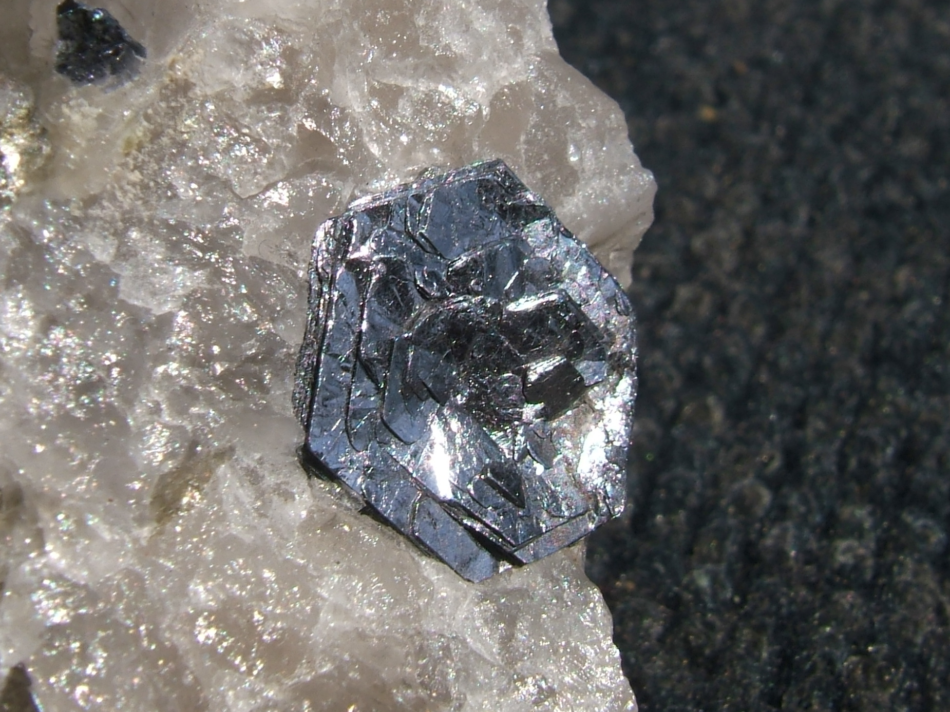 Euhedral, hexagonal molybdenite on quartz, from Molly Hill mine, Quebec, Canada. The large crystal is 15mm across (corner to corner).